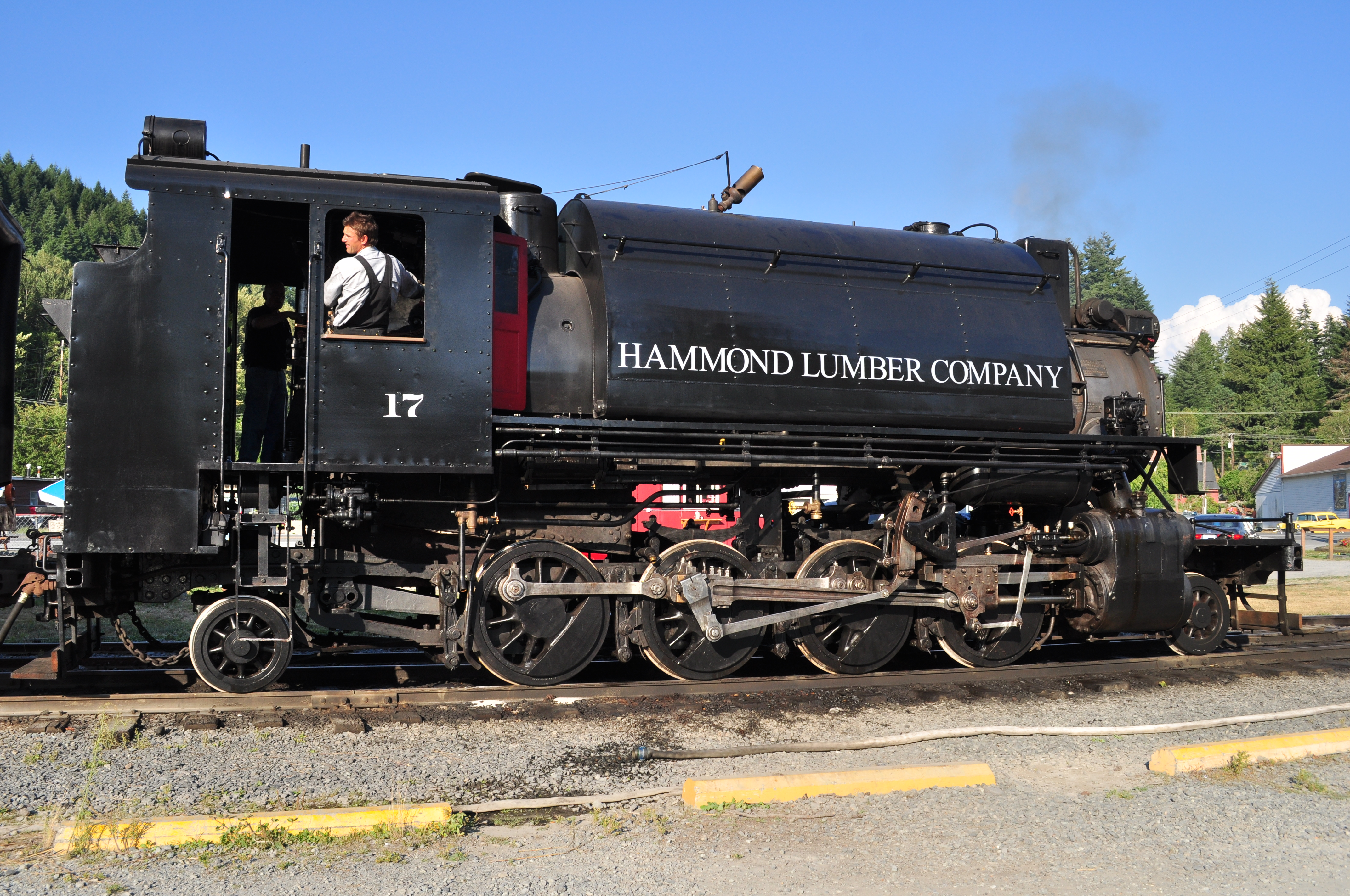 Hammond Lumber Co. 17 locomotive, Mount Rainier Scenic Railroad, Elbe, Washington.